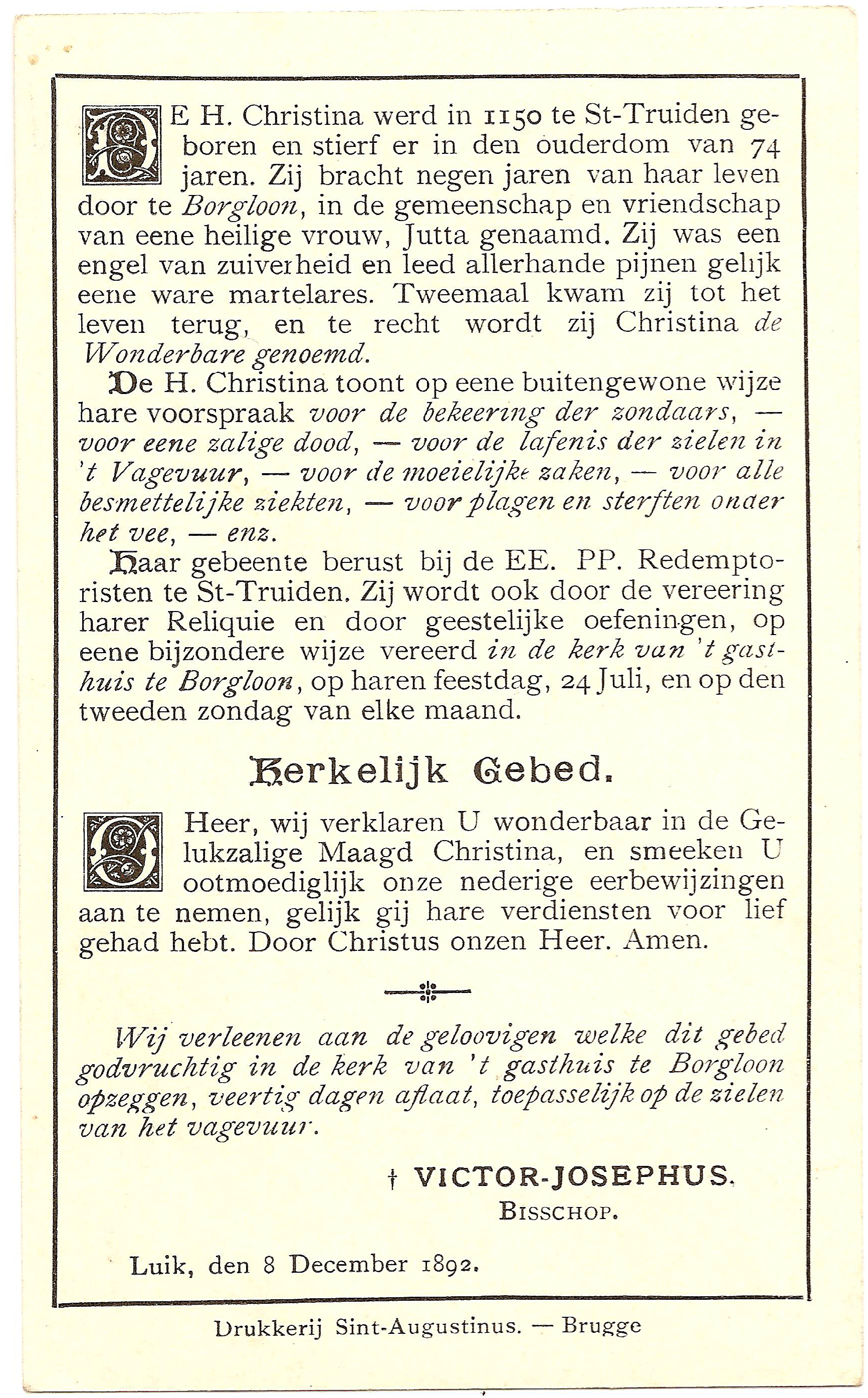 Saint Christina the Astonishing (Mirabilis) back of prayer card from 1892 confirming by the Bishop Victor-Josephus that her relics were cared for by the Redemptorists - (Congregation of the Most Holy Redeemer) and that her Saint Feast day is July 24th.